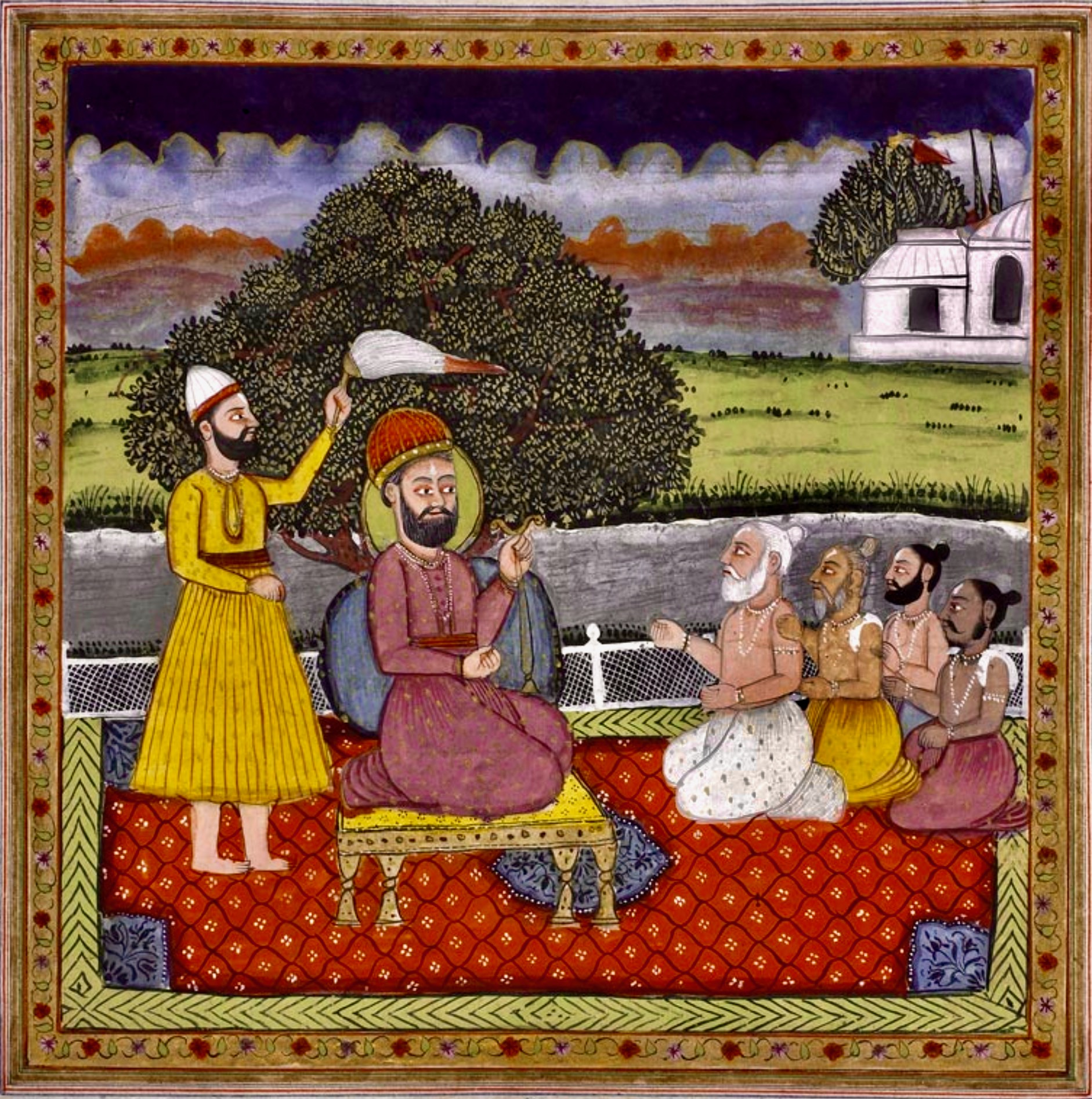 Preserved as MS Panj D4 at the British Library, this is one folio from a Gutka published in 1830 CE and acquired by Jind Kaur, also known as Maharani Jindan (1817–1863) – wife of Maharaja Ranjit Singh of the Sikh Empire. The Sikh scripture Guru Granth Sahib is a thick text of some 1430 pages. It is placed in the sanctum of a Sikh temple. For private collections, the Sikh tradition has been to acquire a Gutka (plural: Gutke). A Gutka is a short anthology of a few principal hymns.A popular version is a Panj-granthi gutka, or one that has five major hymns. The early Gutke were elaborately illustrated. The manuscript Panj D4 contains three hymns from the Gurū Granth Sāhib: Sidh Gosti of Guru Nanak, Bavan Akhari and Sukhmani of Guru Arjan. Each hymn starts with the left side depicting a colored illustration, while the text is on the right in Gurmukhi script with white letters and embellishments on a black background. This illustration depicts Guru Nanak as a young man in dialogue with the Siddhas (Hindu ascetics). This is a photograph of the manuscript created and published in 1830 CE. The 2D-Art licensing guidelines of wikimedia commons therefore apply. Any rights I have as a photographer, I herewith donate to wikimedia under its CC4.0 terms. This work is in the public domain in its country of origin and other countries and areas where the copyright term is the author's life plus 70 years or fewer. This work is in the public domain in the United States because it was published (or registered with the U.S. Copyright Office) before January 1, 1924. This file has been identified as being free of known restrictions under copyright law, including all related and neighboring rights.